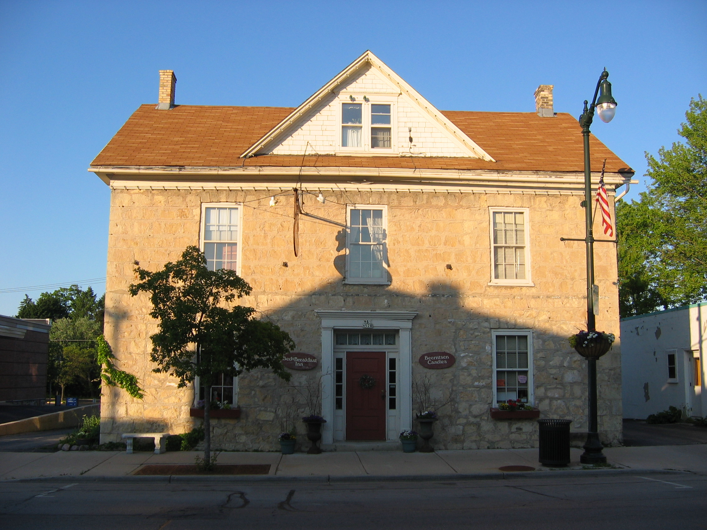 The Stagecoach Inn, a former stagecoach stop in the Washington Avenue Historic District, Cedarburg, Wisconsin